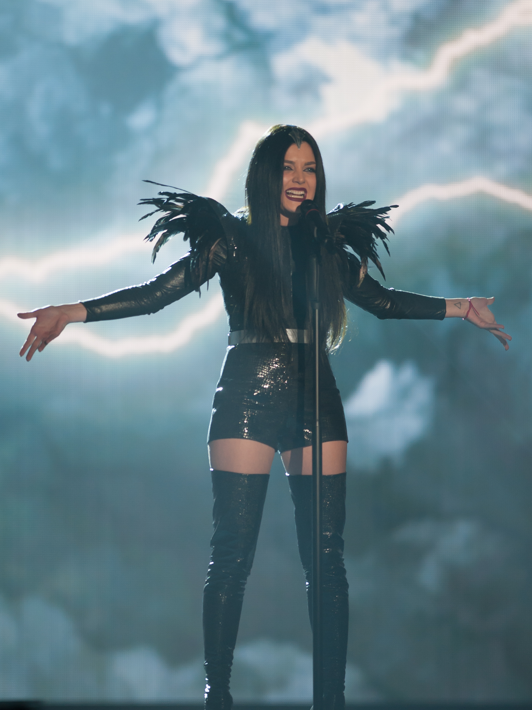 Eurovision Song Contest Vienna 2015: Nina Sublatti, Georgia